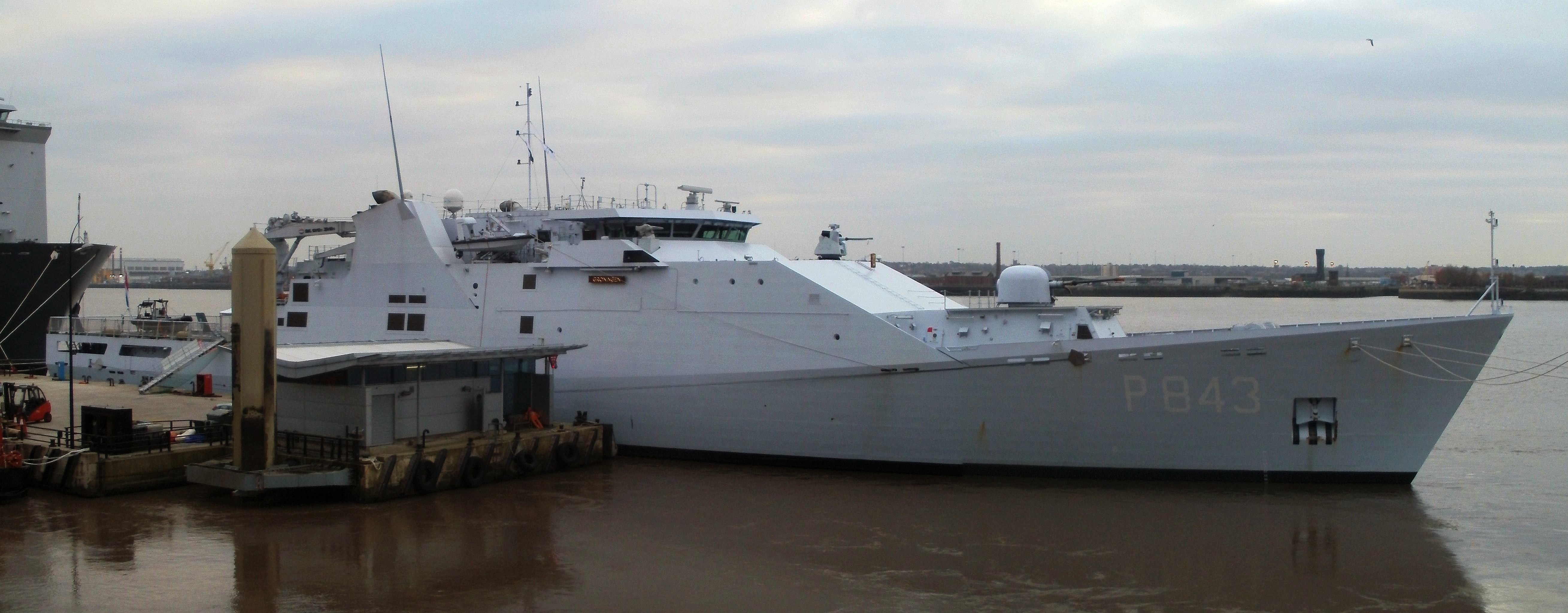 Groningen (P843) at Liverpool 01 March 2013